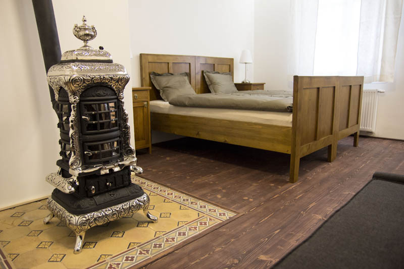 Penzion Majorka